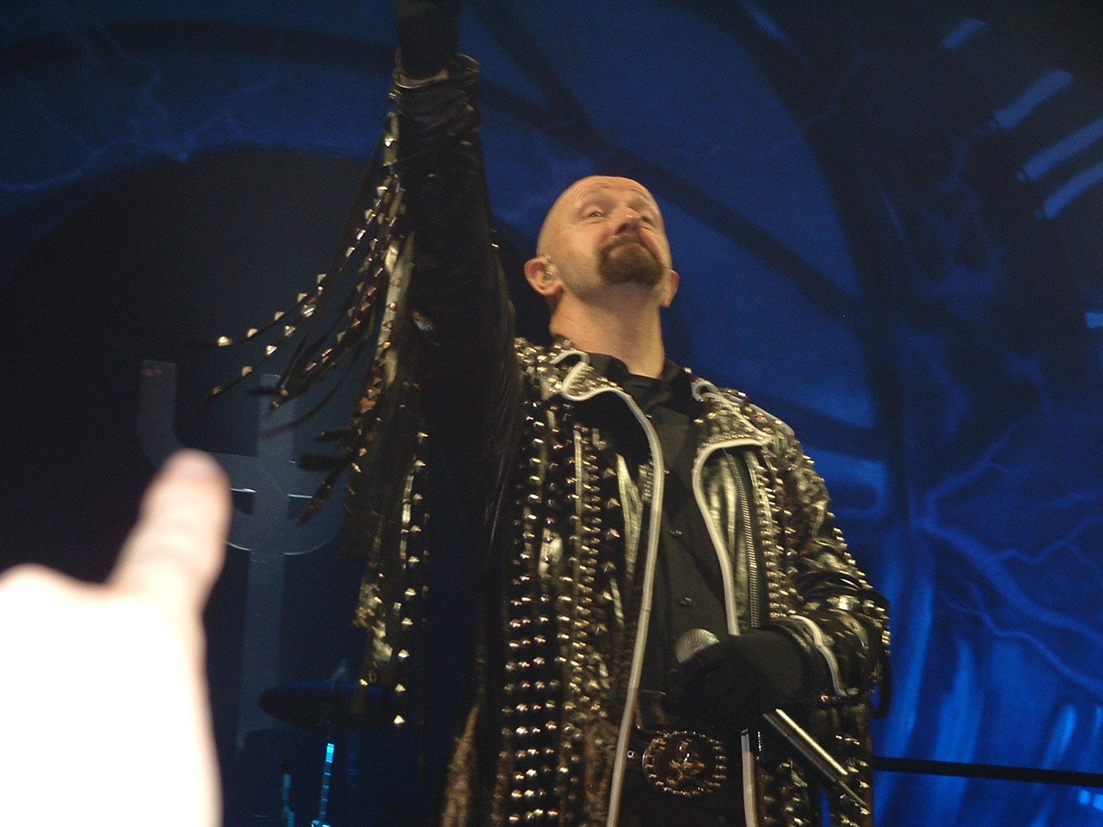 Rob Halford on stage, Birmingham NEC, England, March 19th 2005 Photo taken by Andrew Dale